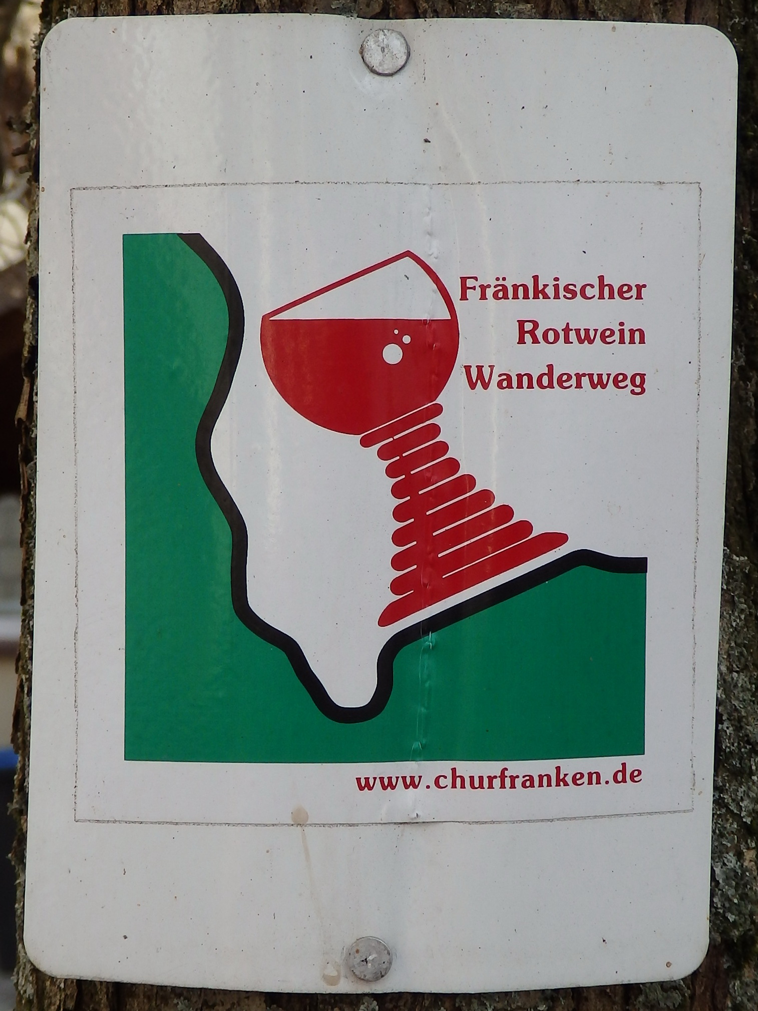 Guide to Red wine hiking trail in Frankonia